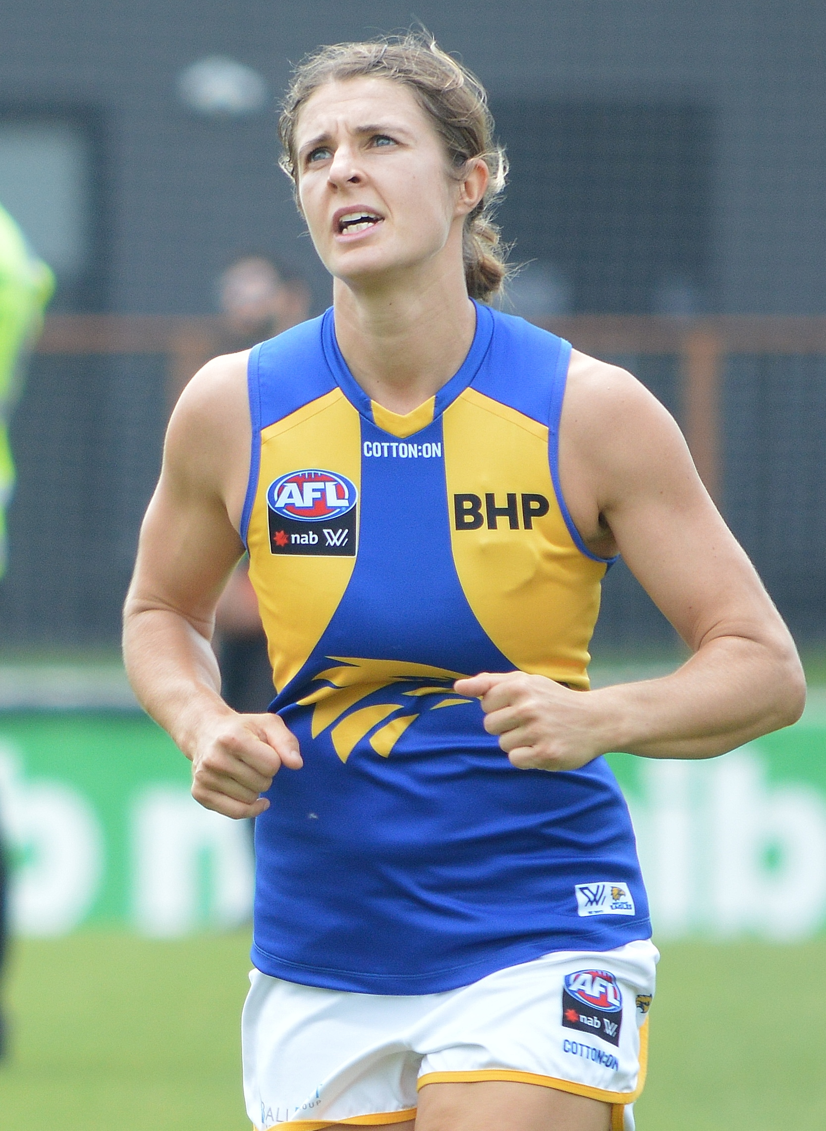 Belinda Smith with West Coast during a pre-season AFL Women's match against Richmond at Punt Road Oval in January 2020.